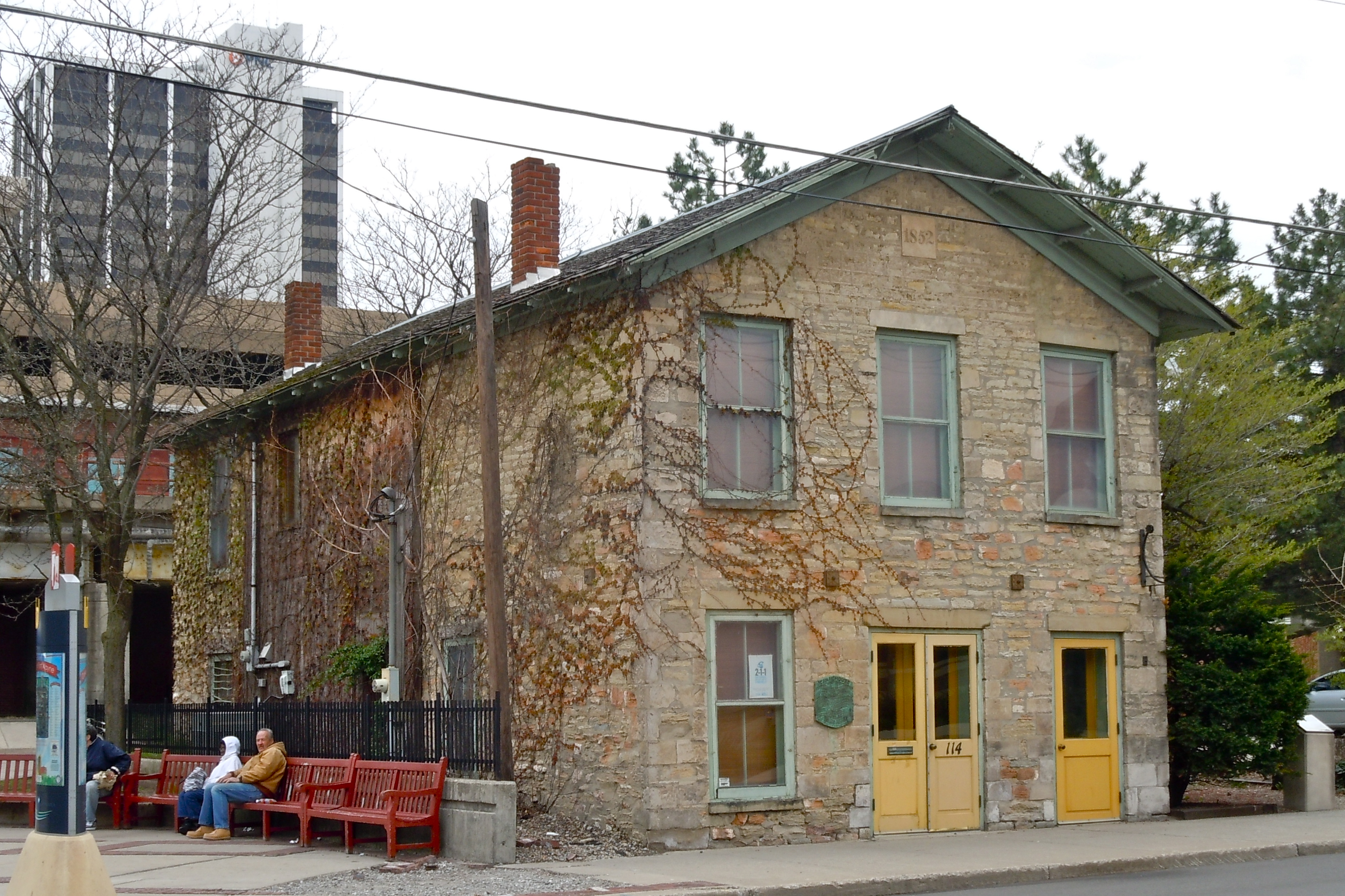 John Brown Stone Warehouse on the NRHP since December 15, 1997. At 114 W. Superior St., Fort Wayne, Allen County, Indiana. Datestone near peak of roof says 1852. Historic plaque near doors, major downtown bus stop to the left.